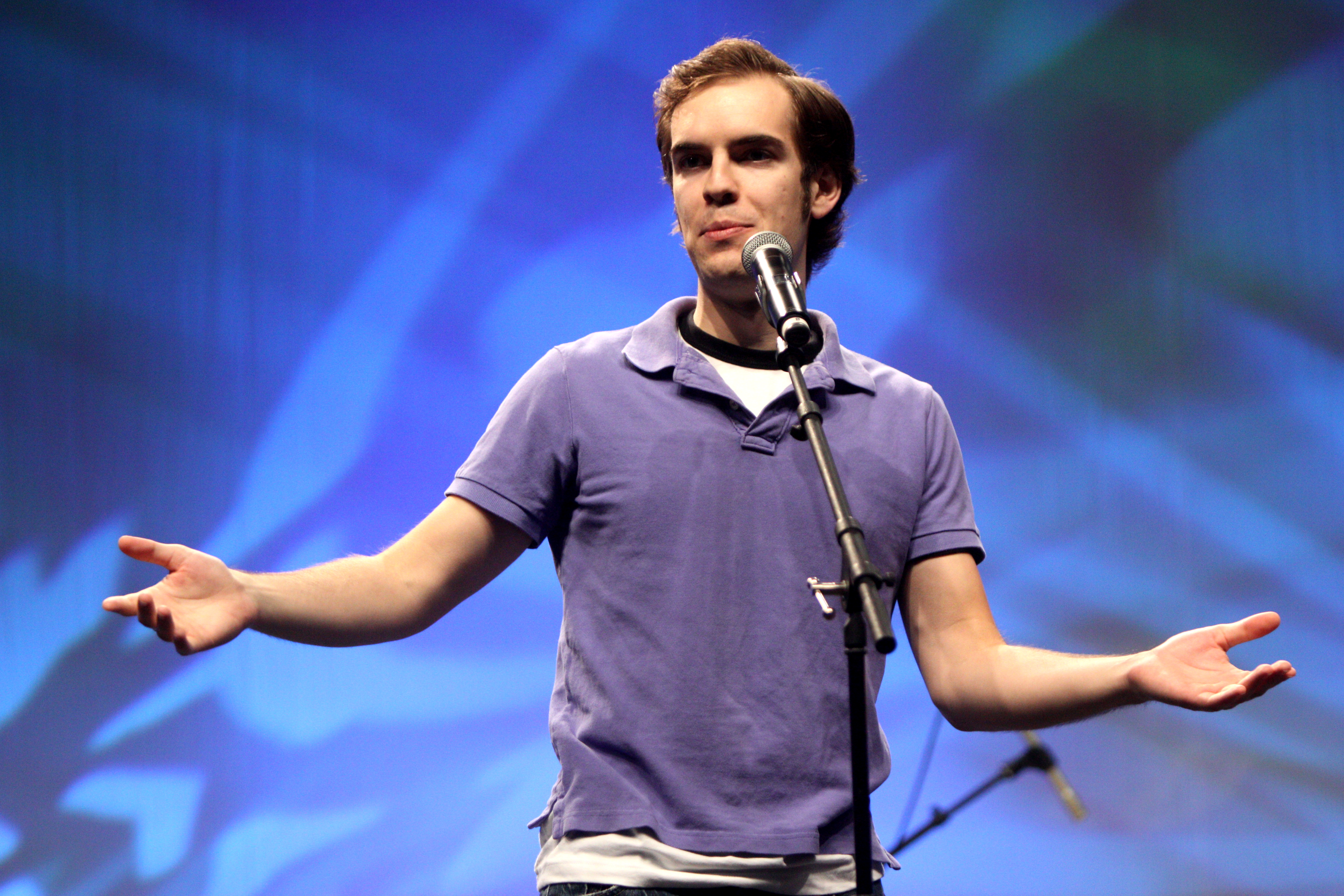 Jack Douglass as Intern 2 (of MyMusic) at VidCon 2012